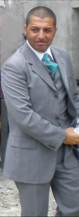 The businessman Stefano D'Amico meets the family of the Italian-American mafia boss Jackie D'Amico after years